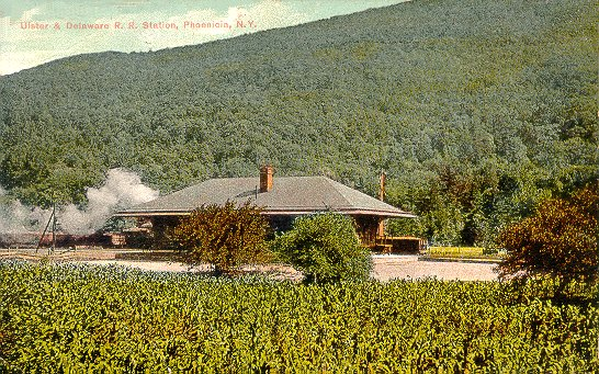 This is the depot at Phoenicia, published 1903.